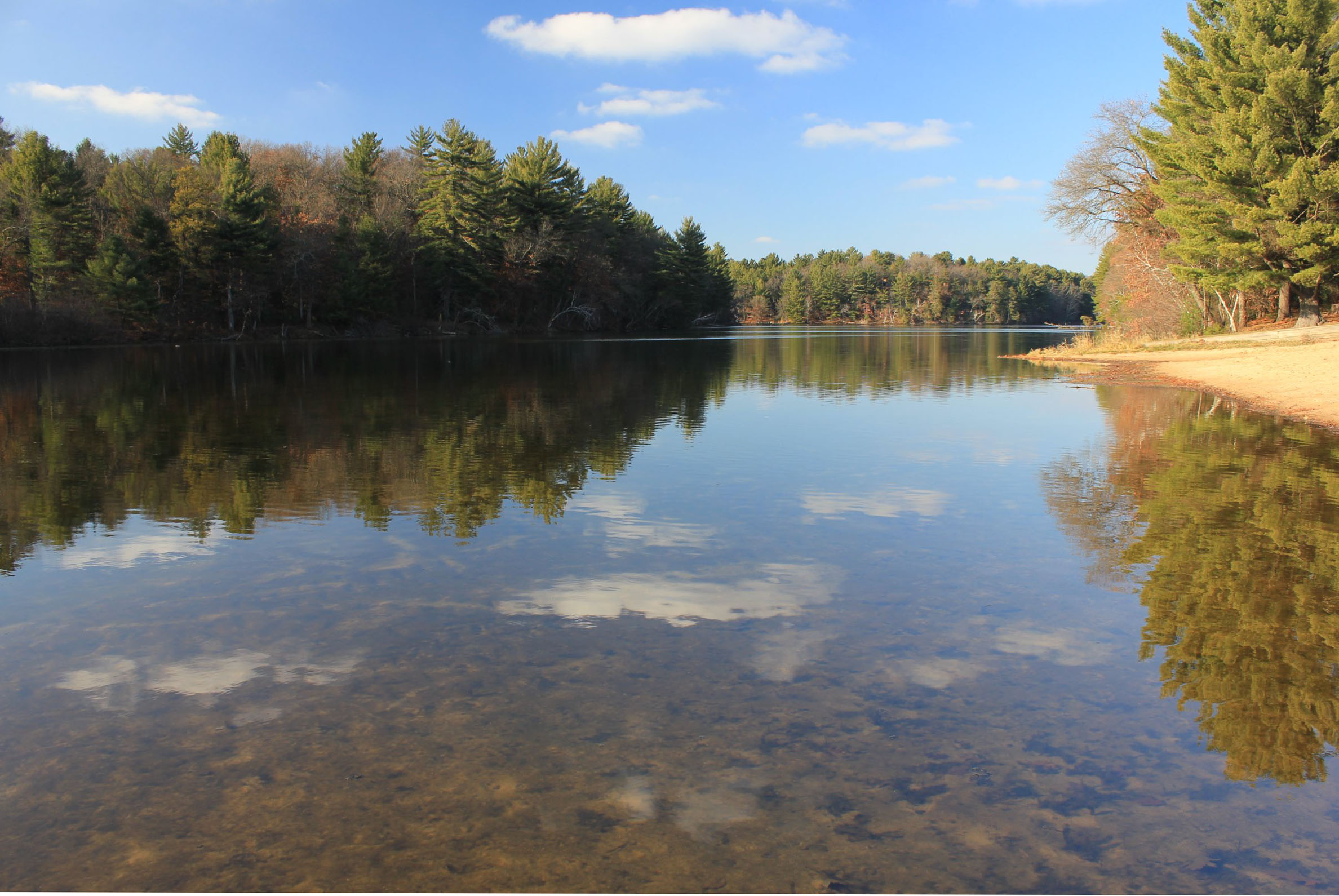 Landscape and clouds reflected in water at Mirror Lake State Park